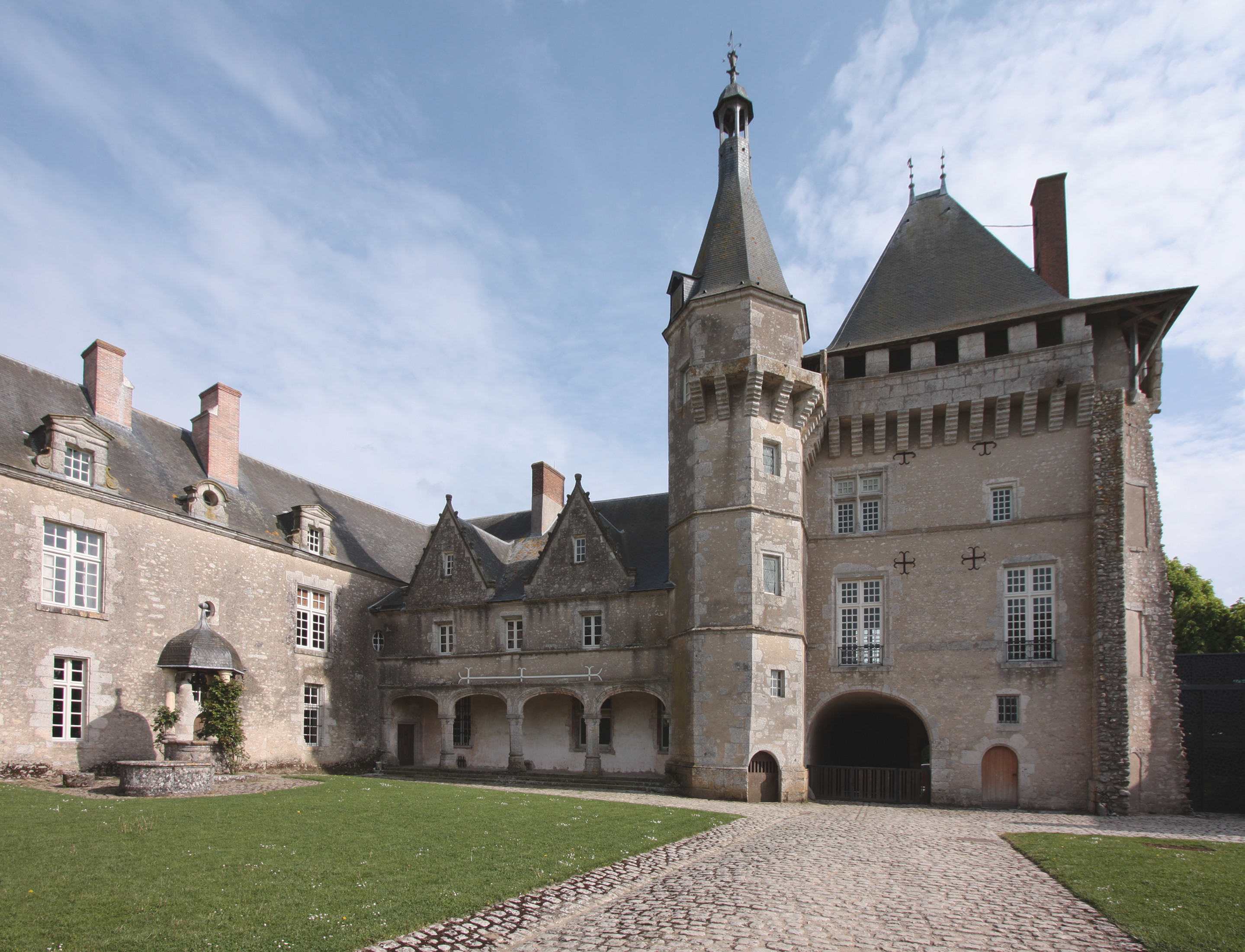 Courtyard of the Castle of Talcy, located in the county of Loir et Cher/France